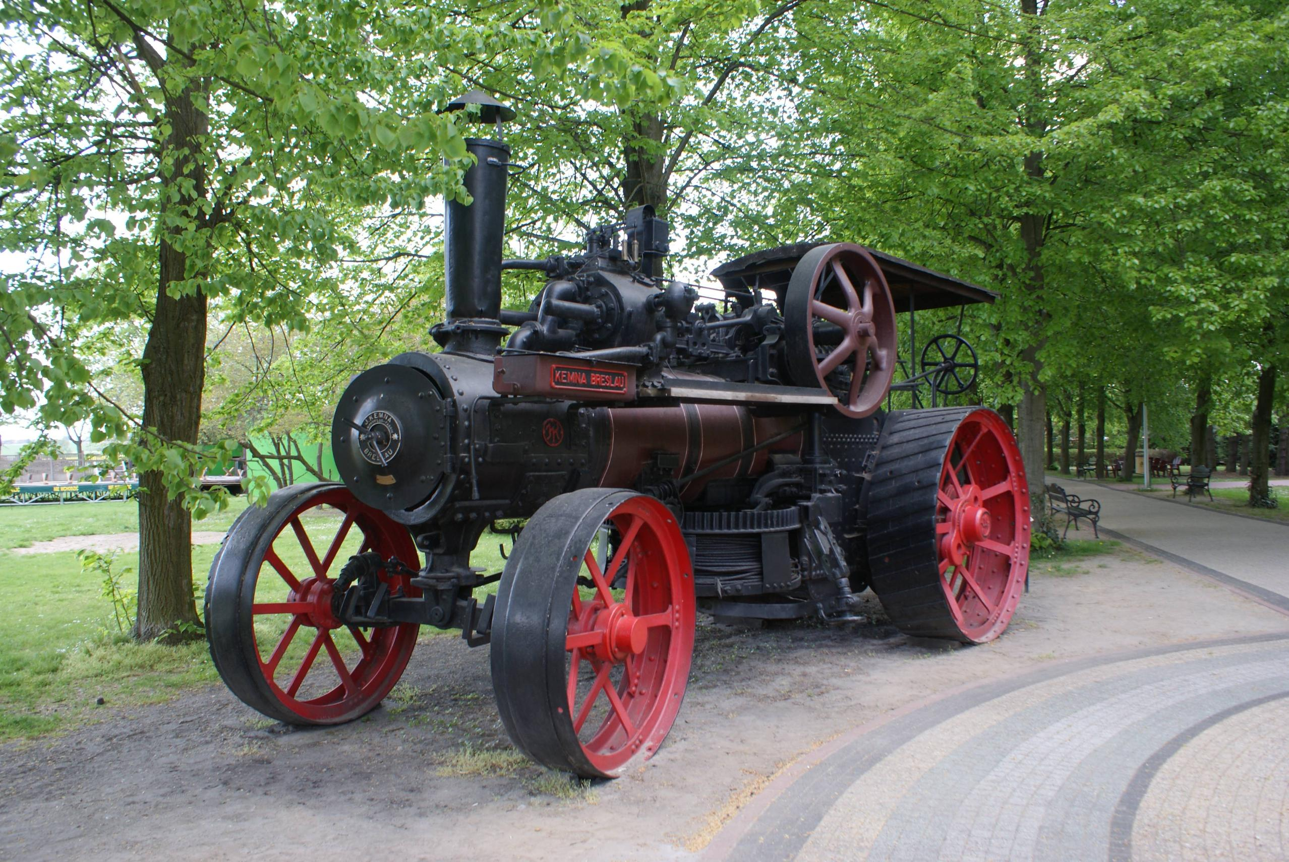 Kemna road roller